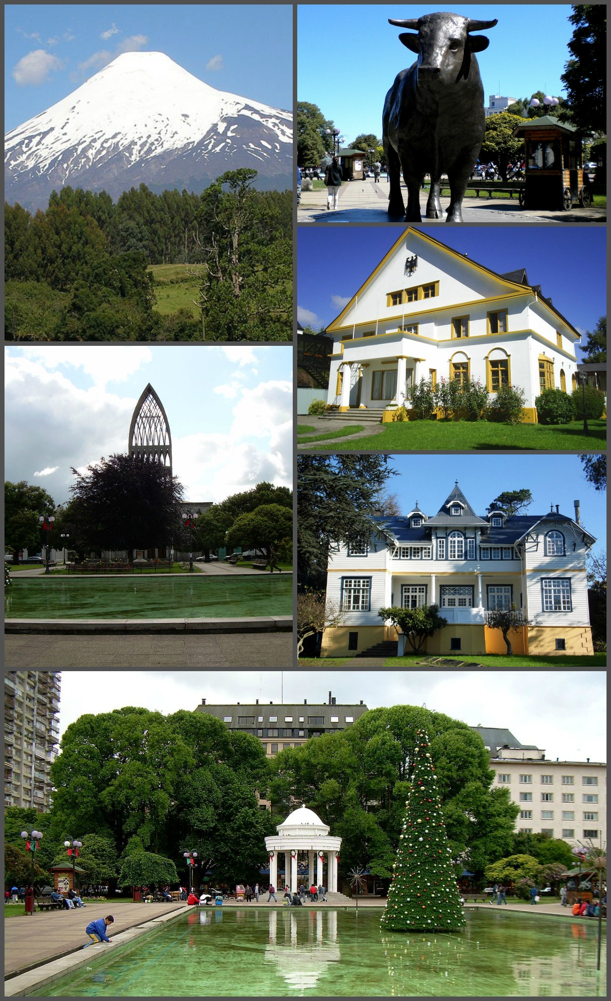 Montage of Osorno, Los Lagos Region, Republic of Chile.